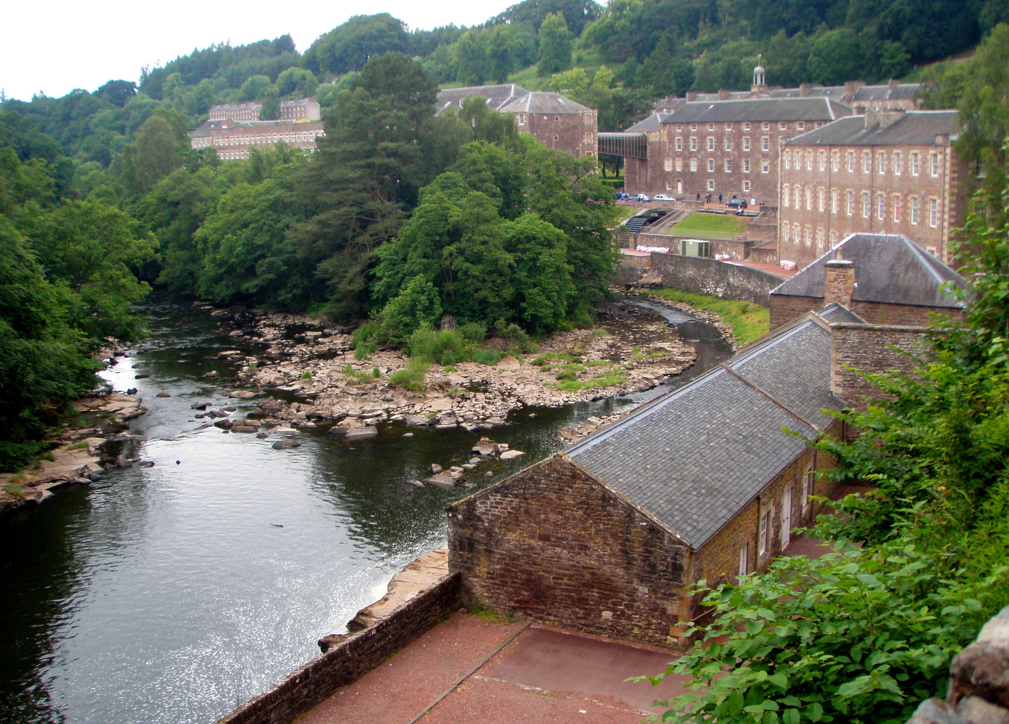 The village of New Lanark with its associated mill buildings and the river in the foreground